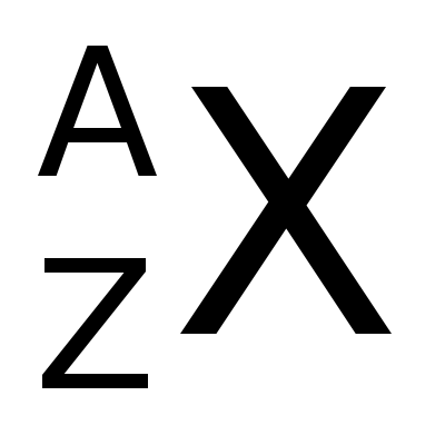 A chemical element X and his mass (A) and atomic (Z) numbers.